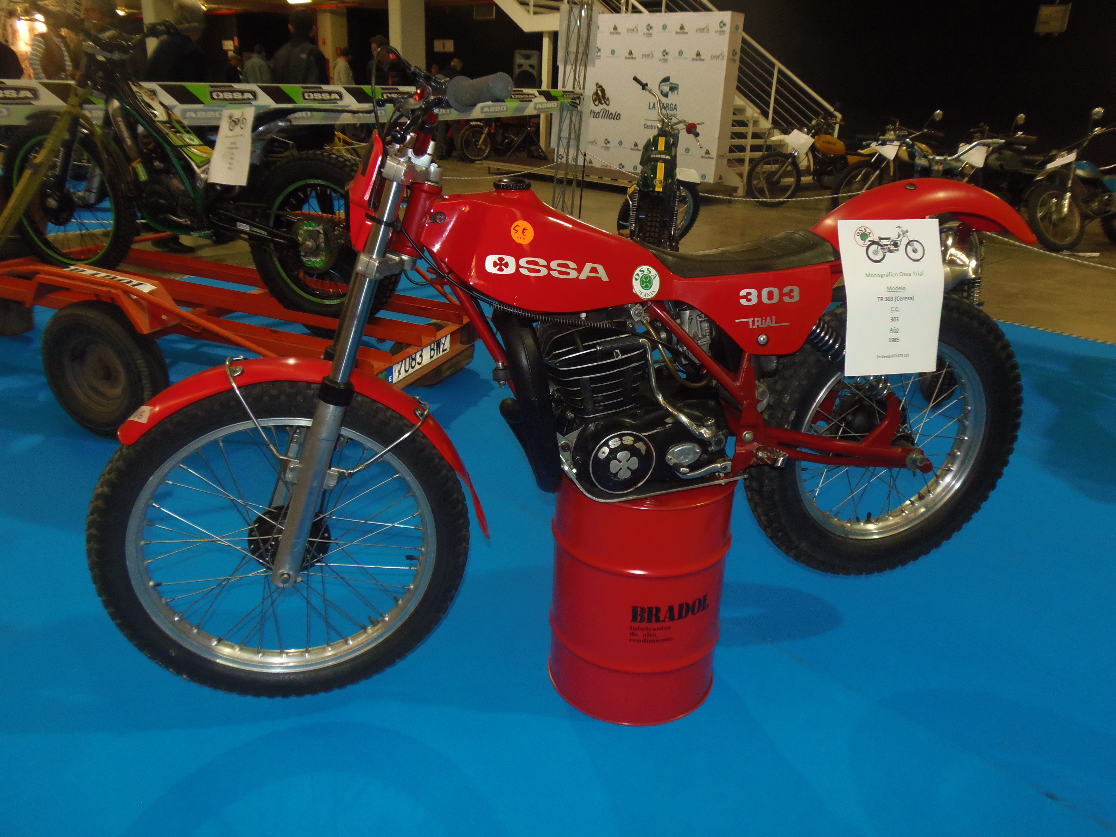 OSSA TR 303, 1985